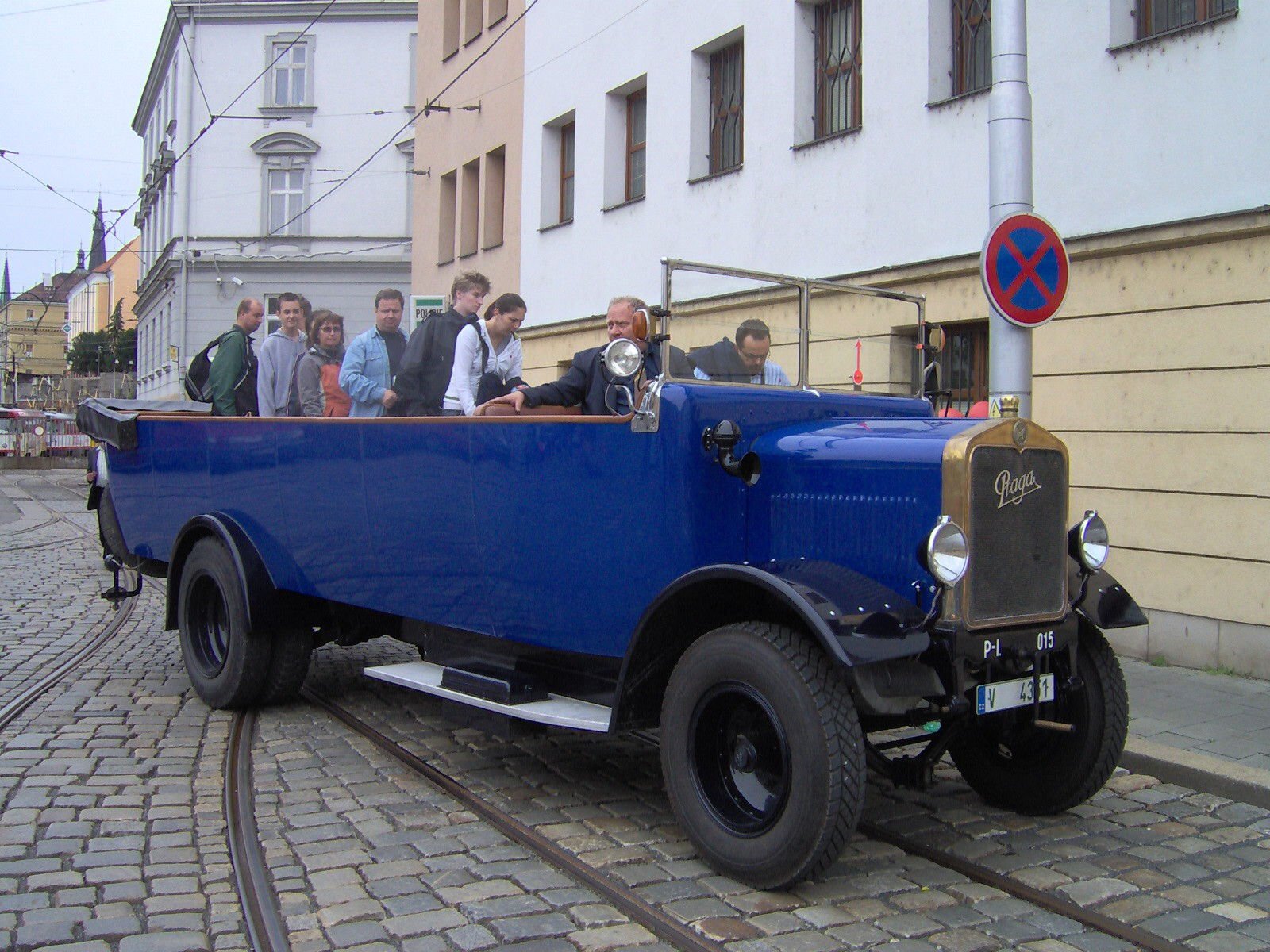 Praga NO bus, Olomouc, Czech Republic